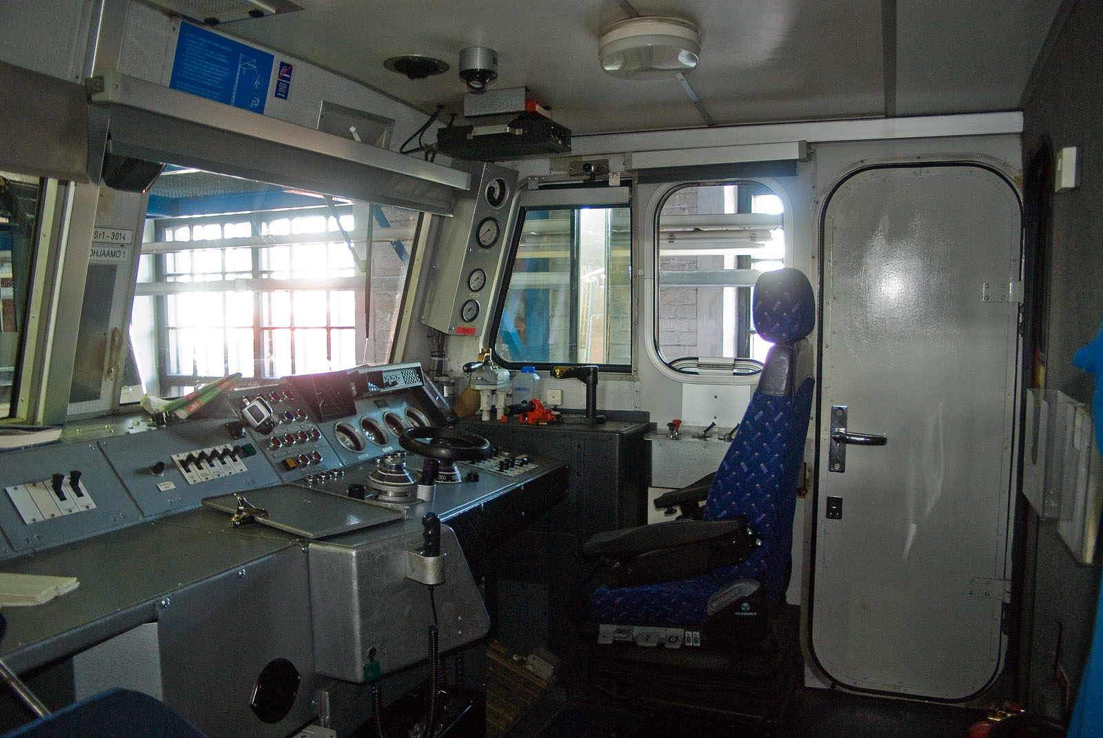 Cabin of VR Class Sr1 electric locomotive.